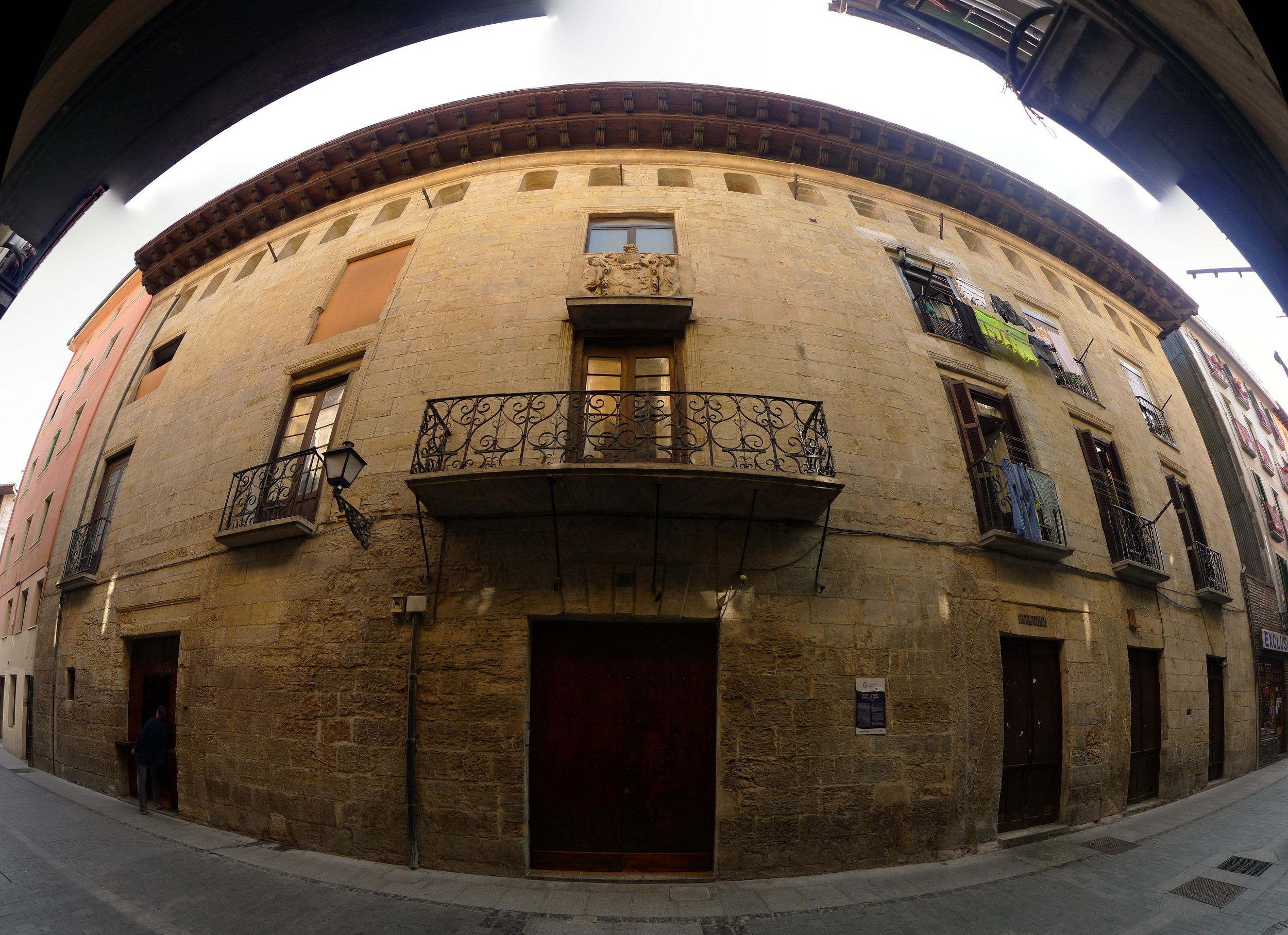 Atodo palace at Tolosa main street.